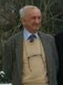 Enrico Giusti, Oberwolfach 2003